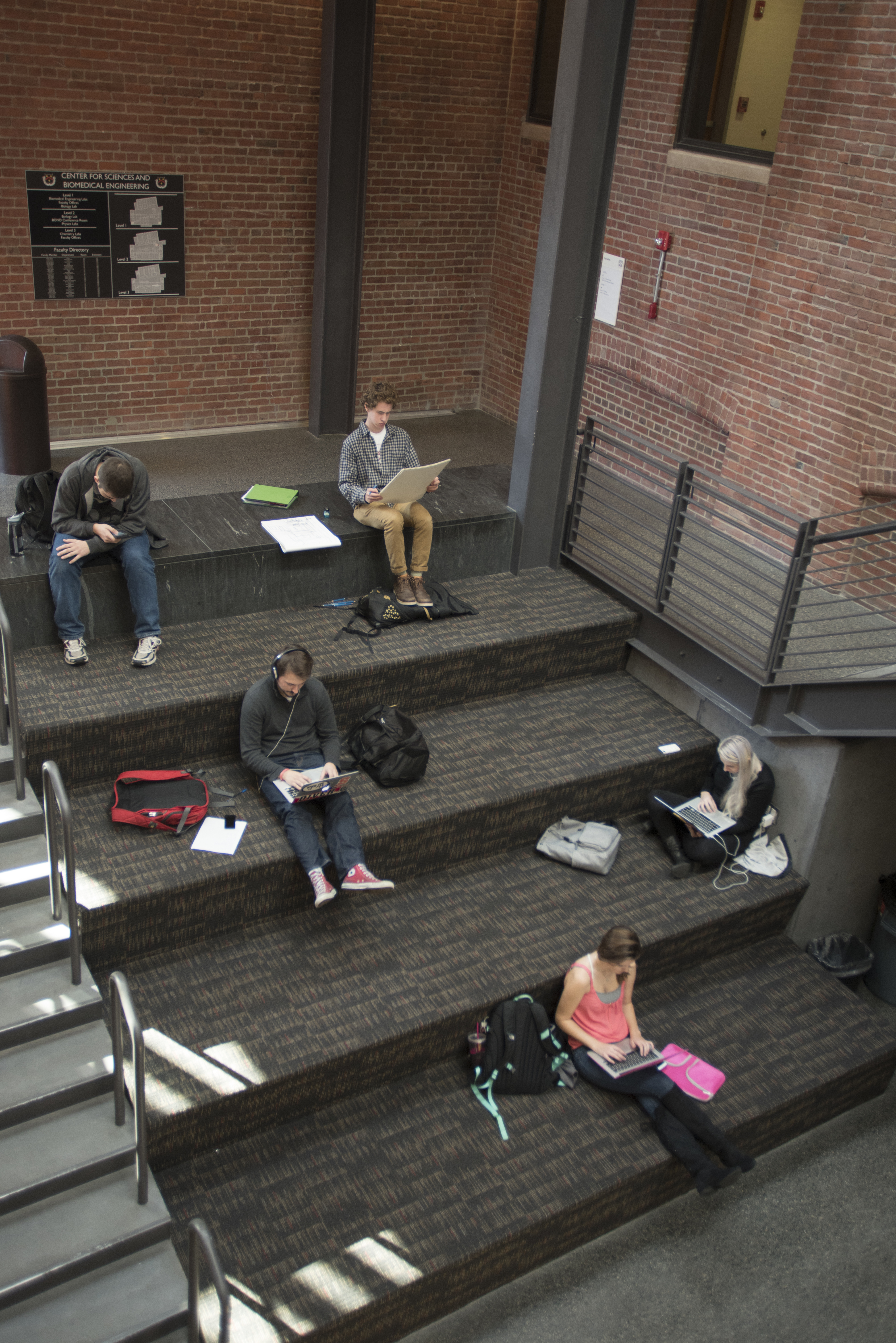 Students studying inside the Ira Allen building on campus